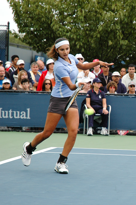 Sania Mirza at 2006 US Open, New York, United States